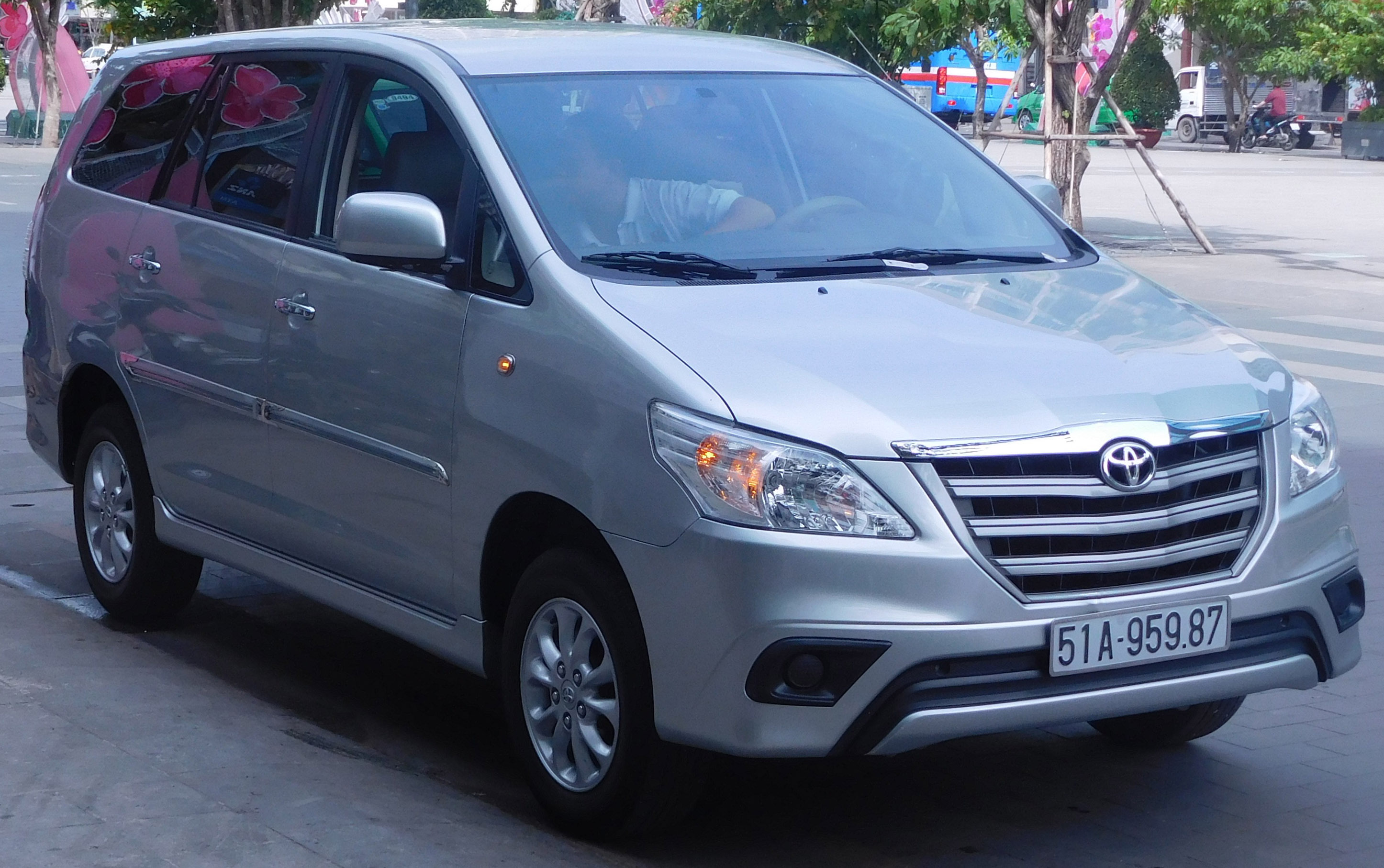 2014 Toyota Innova (TGN40) wagon, photographed in Ho Chi Minh City, Vietnam.